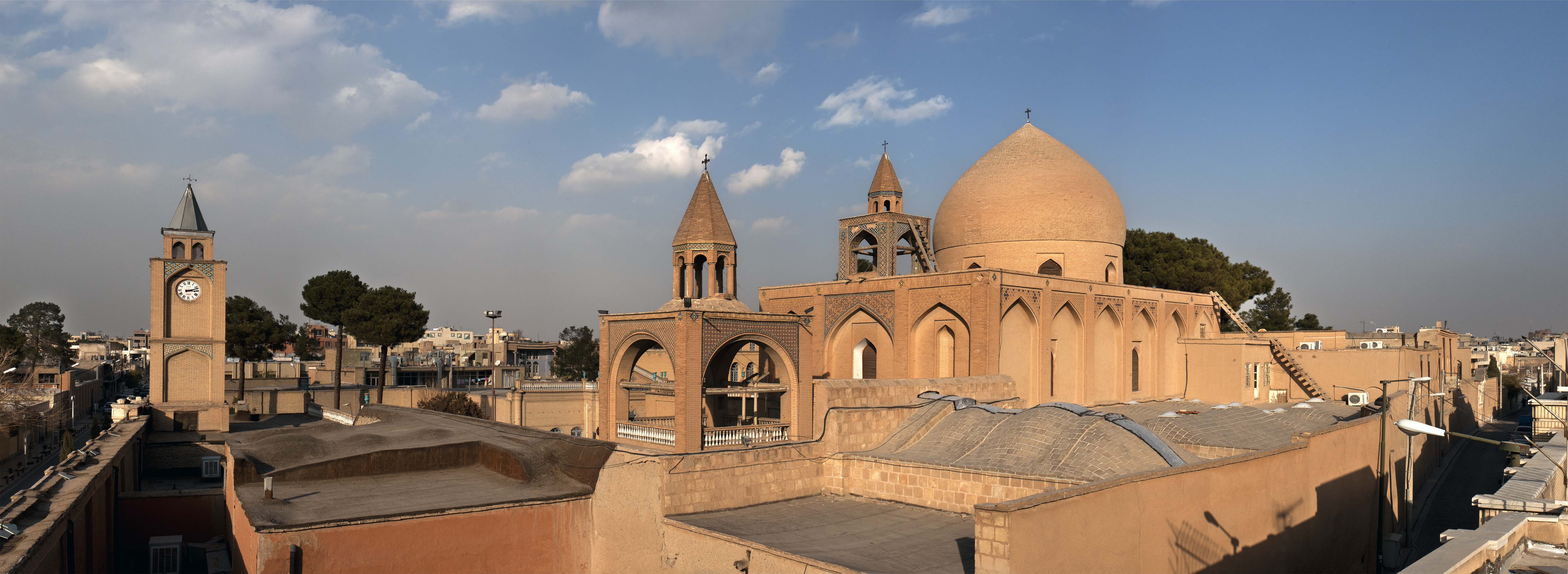 Panoramic image of Vank Cathedral, Armenian Quarter, Esfahan, Iran.